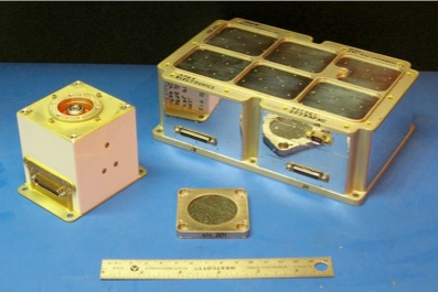 Components of the Alpha Particle X-ray Spectrometer (APXS)